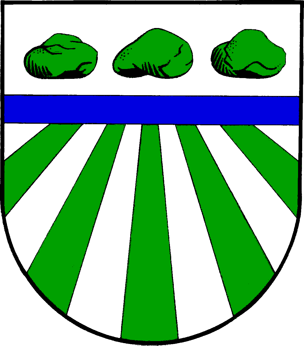 Coat of arms of the municipality Steenfeld in Schleswig-Holstein, Germany.